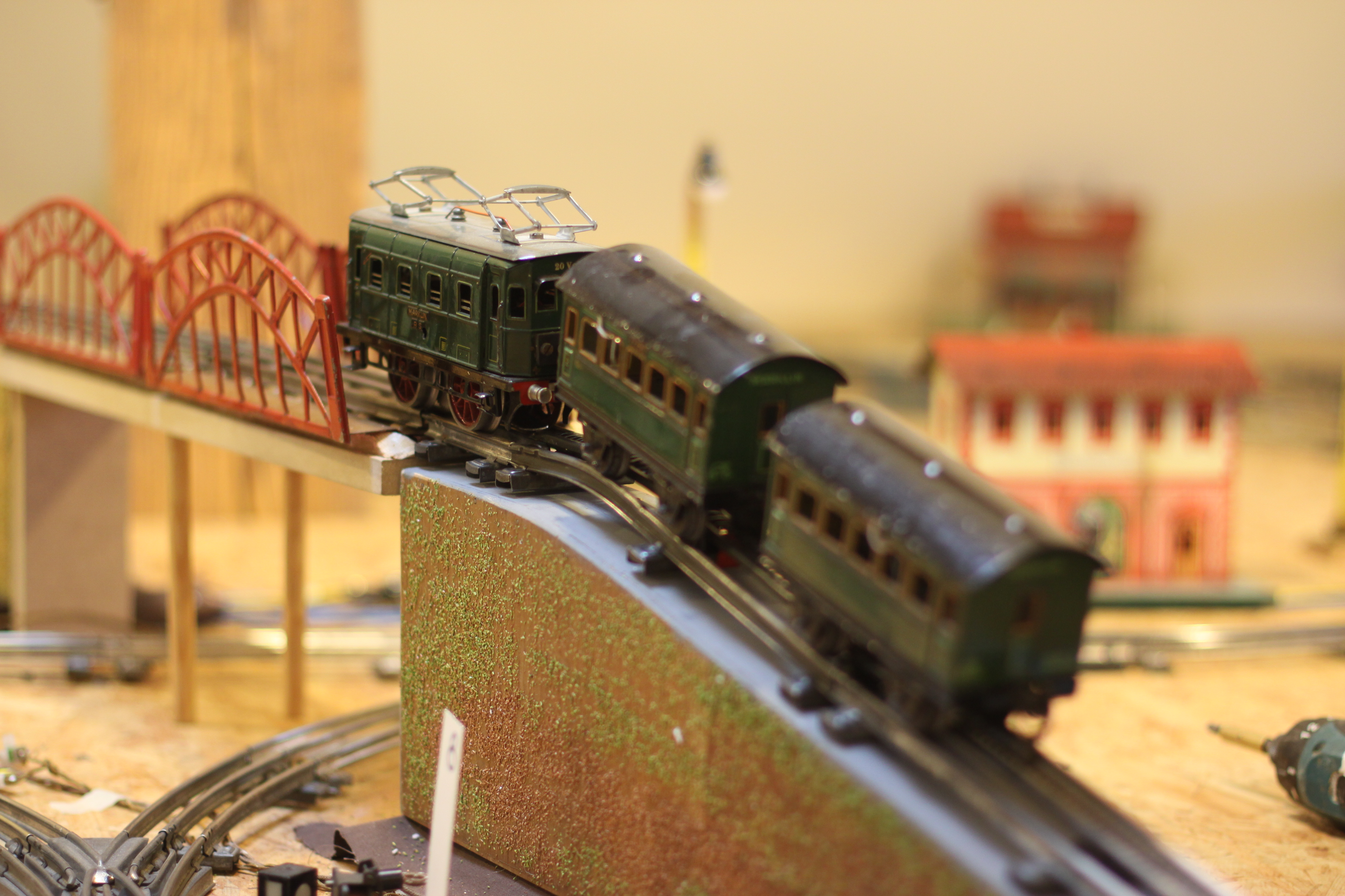 rack railway Marklin O gauge